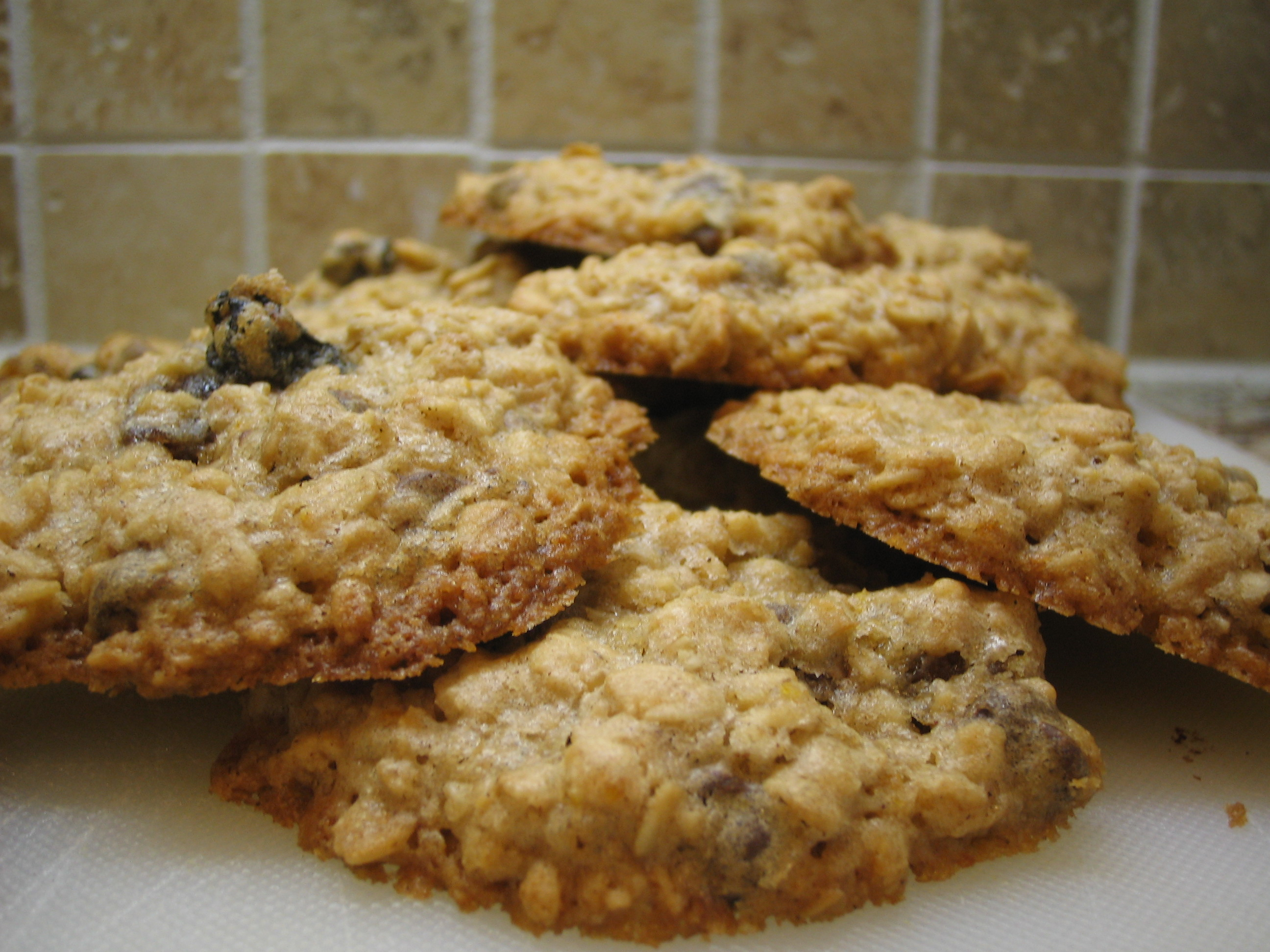 Oatmeal cookies with orange zest, golden raisins, and chocolate chips.